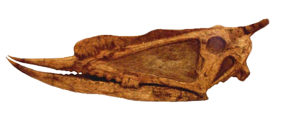 Skull of the famous Chinese Dsungeripterus weii